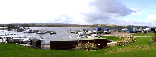 Marina at Killadeas, County Fermanagh It is beside Killadeas Hotel.